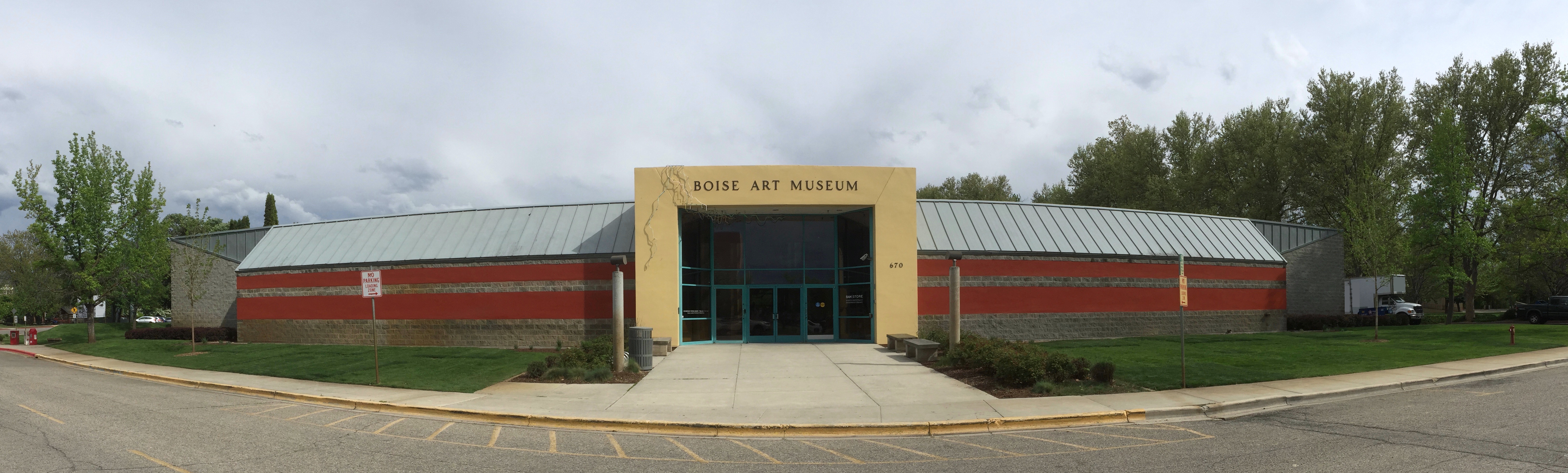 Panoramic view of the entrance of the Boise Art Museum in April of 2016